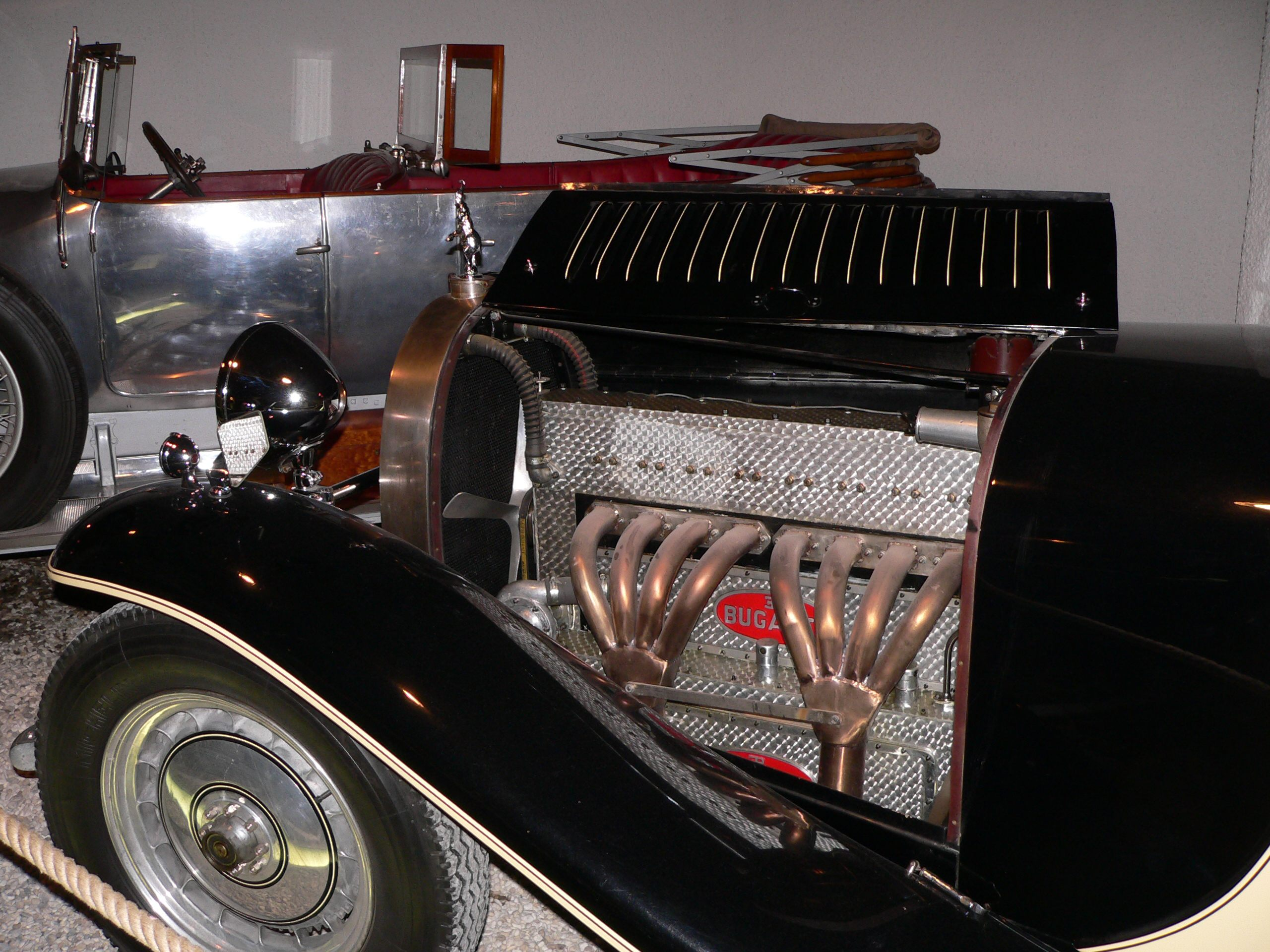 Bugatti Type 46 1930